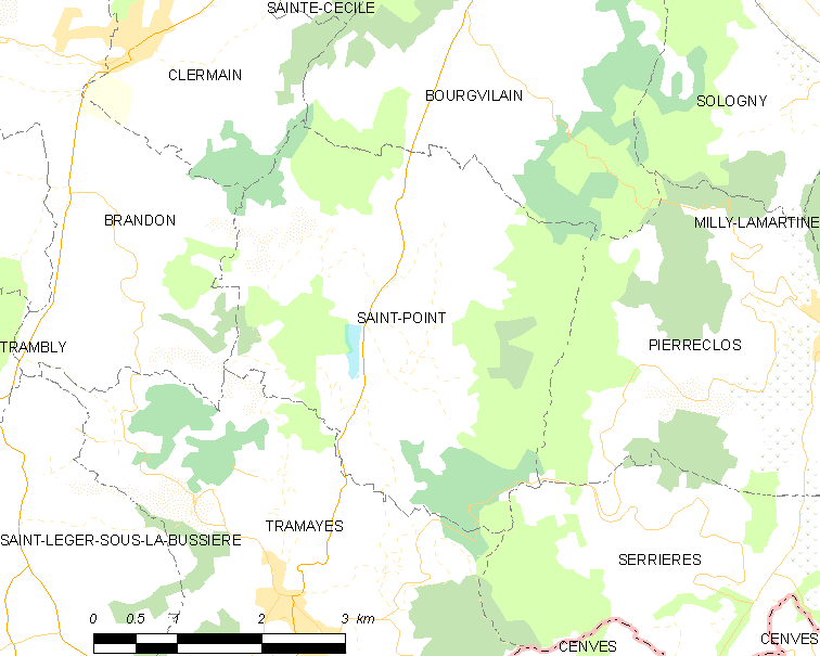 Map of French municipality